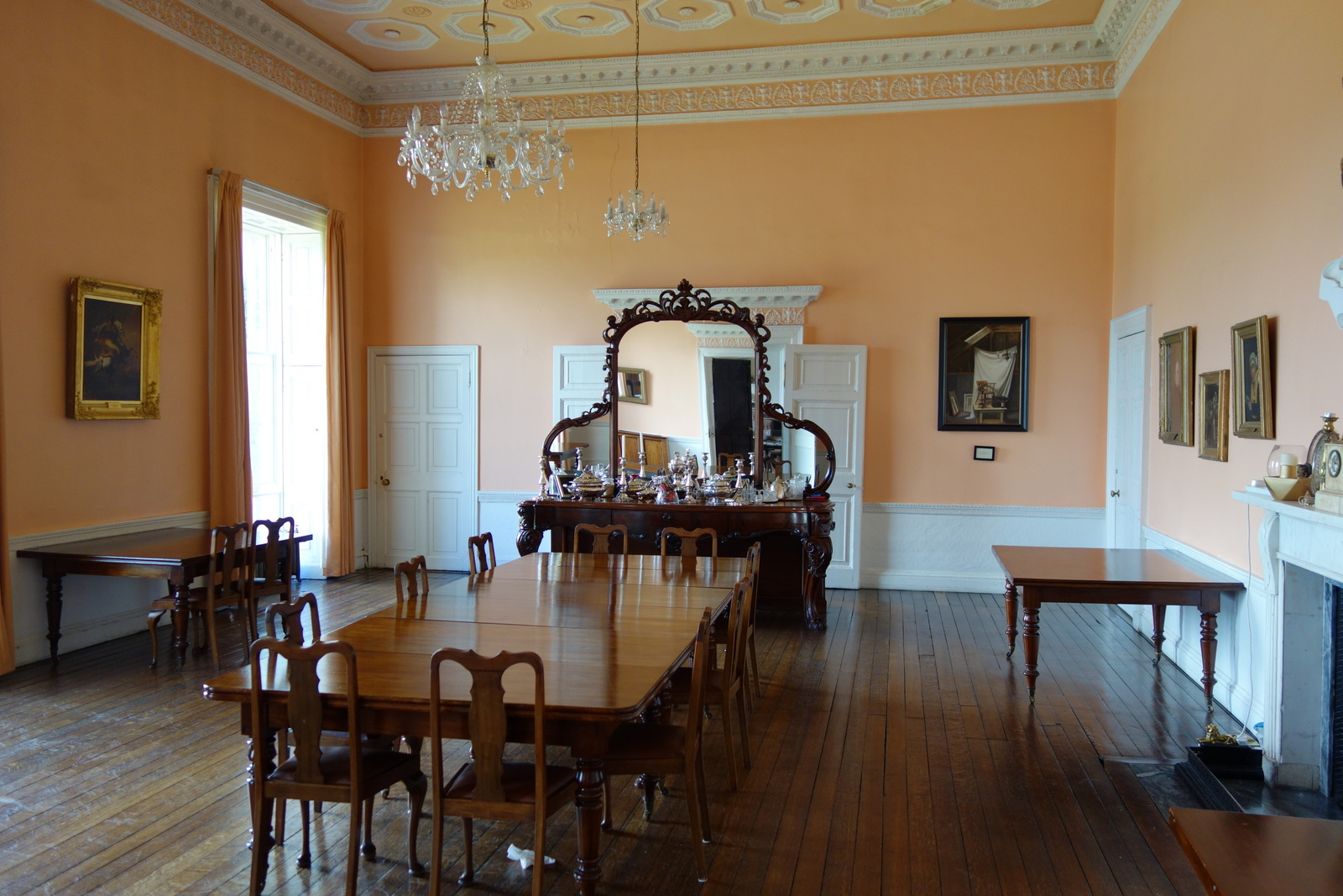 Clongowes Wood College is a voluntary secondary boarding school for boys, located near Clane in County Kildare, Ireland. Founded by the Society of Jesus (Jesuits) in 1814, it is one of Ireland's oldest Catholic schools, and featured prominently in James Joyce's semi-autobiographical novel A Portrait of the Artist as a Young Man. One of five Jesuit schools in Ireland, it had 450 students in 2011/2012 when the fees were €16800 per annum